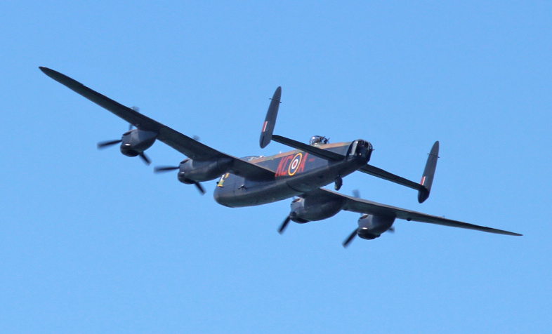 A Battle of Britain Memorial Flight Lancaster bomber, flying over Cowes, Isle of Wight as part of the Maritime Festival in Southampton and Cowes in May 2013.